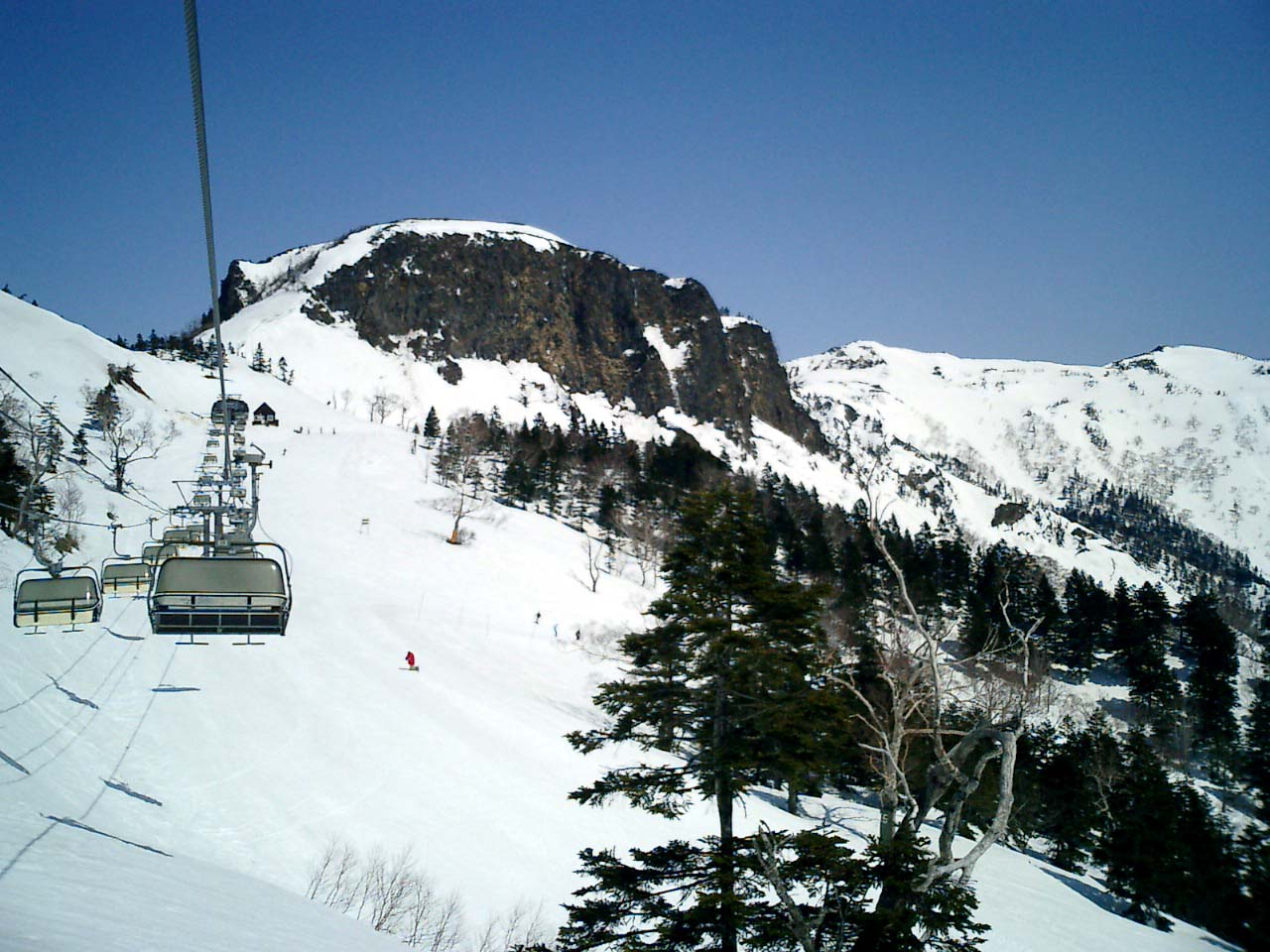 kawaba ski